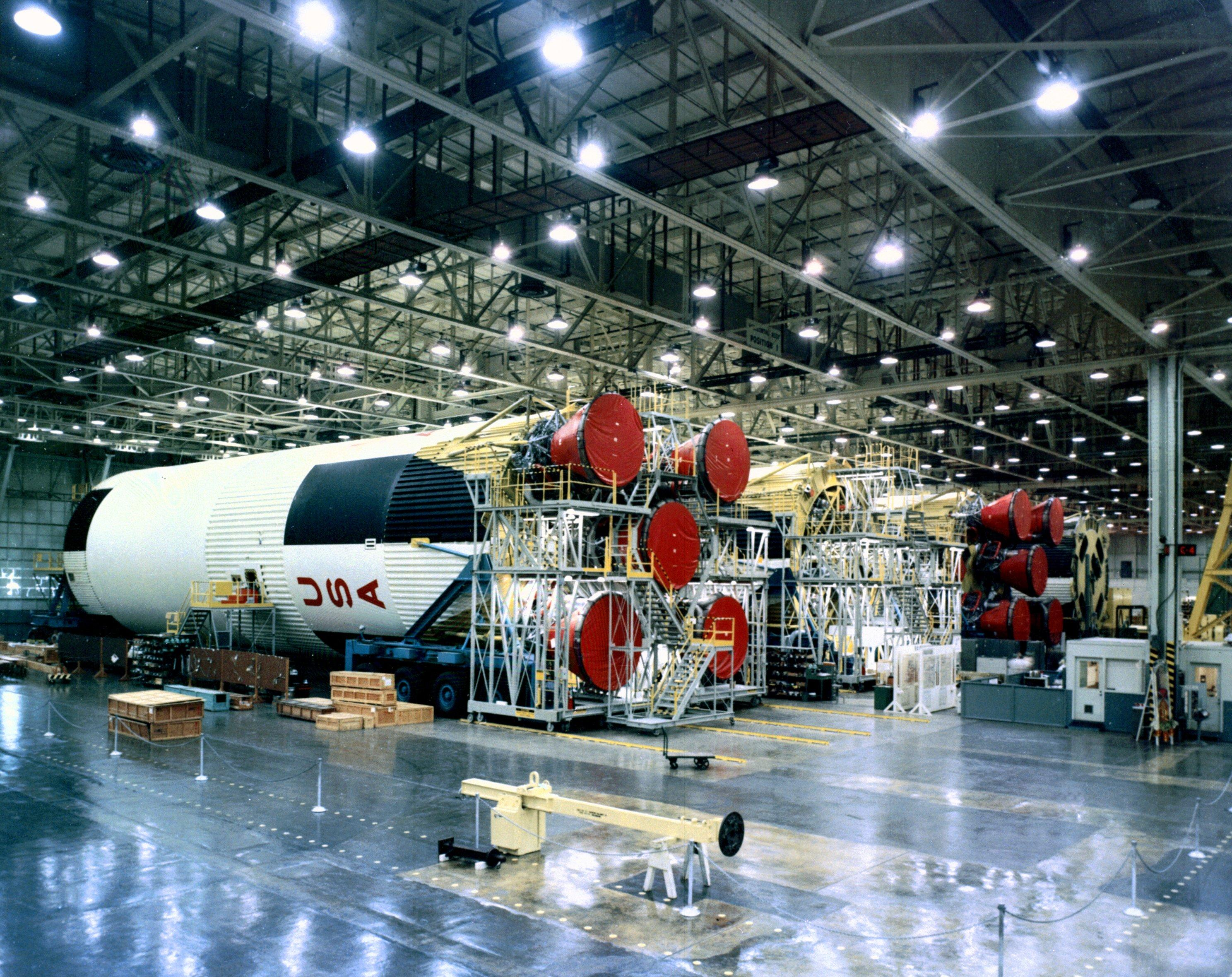 The Saturn V first stages, S-1C-10, S-1C-11, and S-1C-9, are in the horizontal assembly area for the engine (five F-1 engines) installation at Michoud Assembly Facility (MAF).